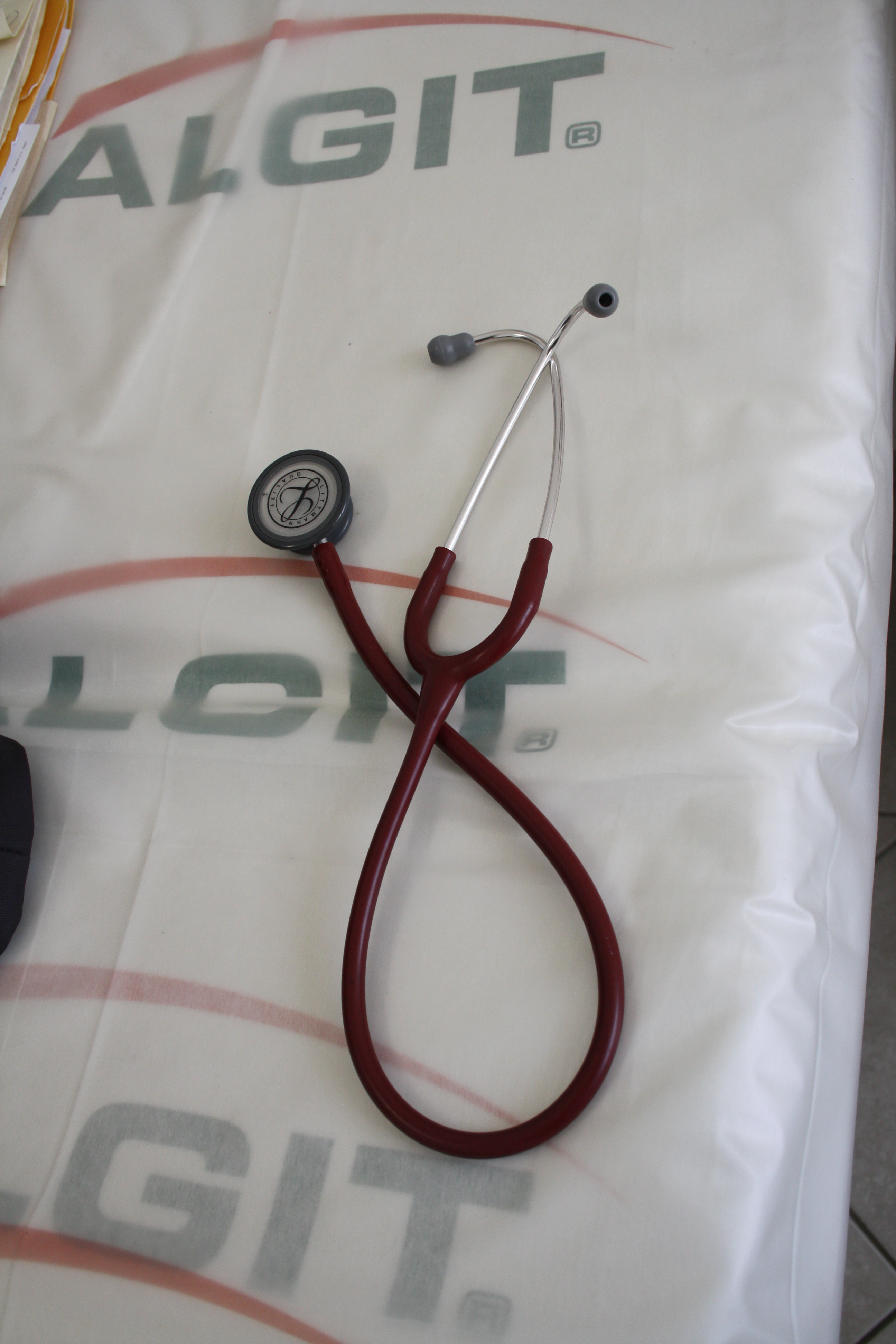 Czech stethoscope